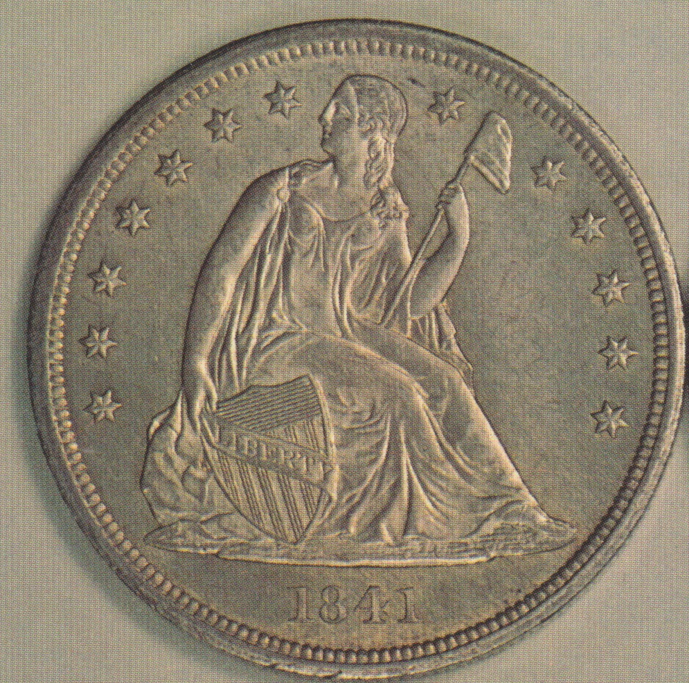 Image of 1841 Seated Liberty Dollar. Steve Ivy's catalogs lack copyright notices. From collection of the American Numismatic Association Library, Colorado Springs CO